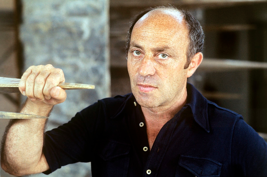 Italian sculptor Arnaldo Pomodoro, looking at the camera with an intense gaze, is famous especially for his bronze work called Sphere within sphere, that can be seen in many settings worldwide and inspires an idea of liberty through geometrical analysis; he poses beside the sculpture he has made for the new Mondadori branch in Segrate. Milan (Italy), 1975.